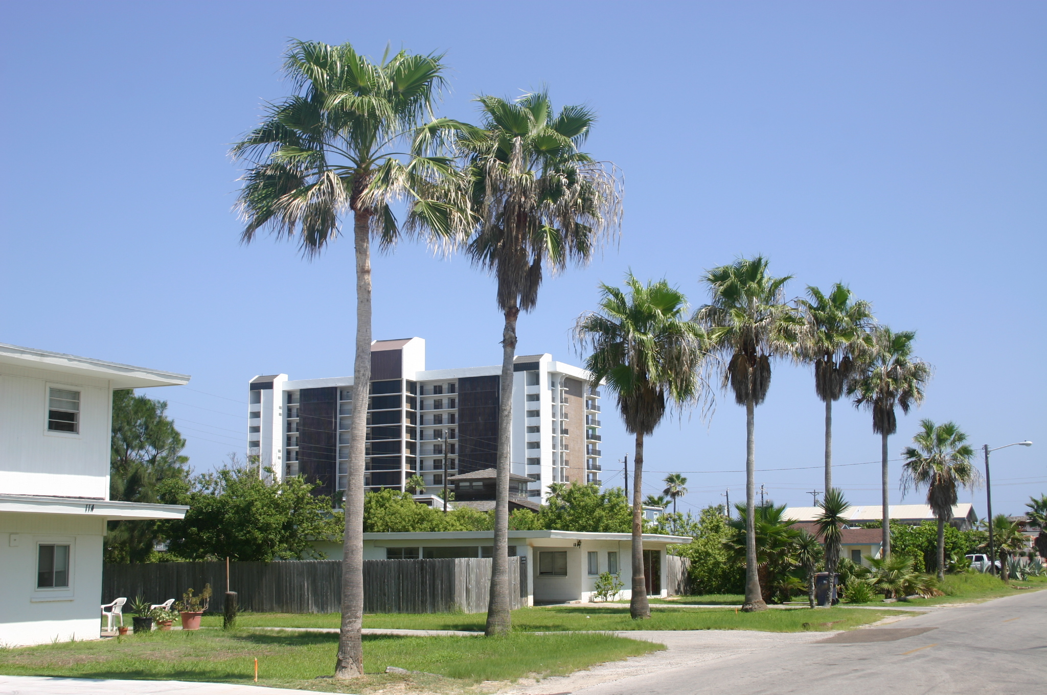 Author: Myself Source: I took this picture on September 29, 2005, with a Canon EOS Digital Rebel. Summary: This is a representative street scene on South Padre Island, Texas showing some residences with a hotel in the background. The vegetation is all introduced. In the state of nature, the way it was 50 years ago, the only vegetation was the beach grass and a few vines.